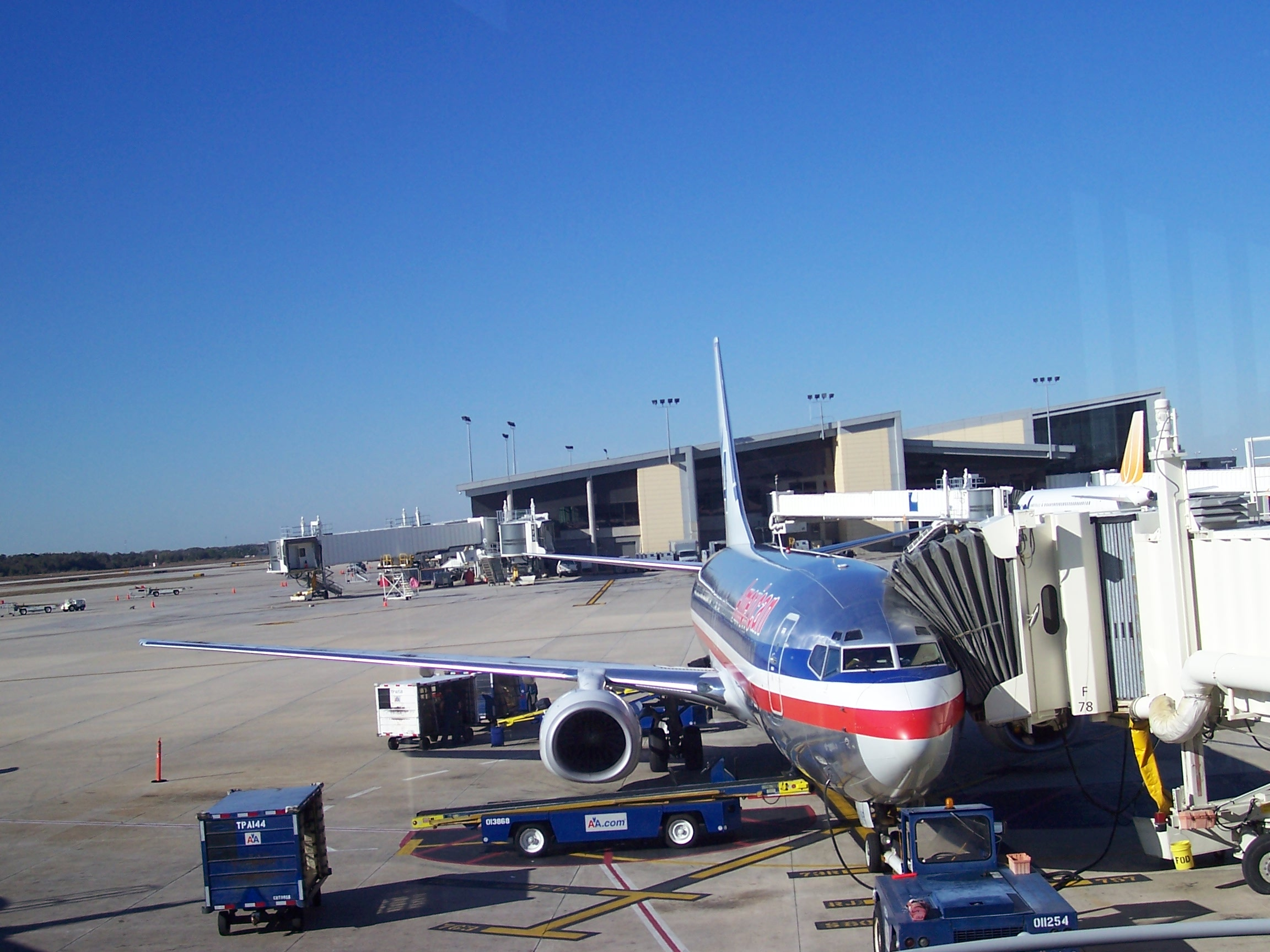 American Airlines 737-800 at Tampa International, Gate F78